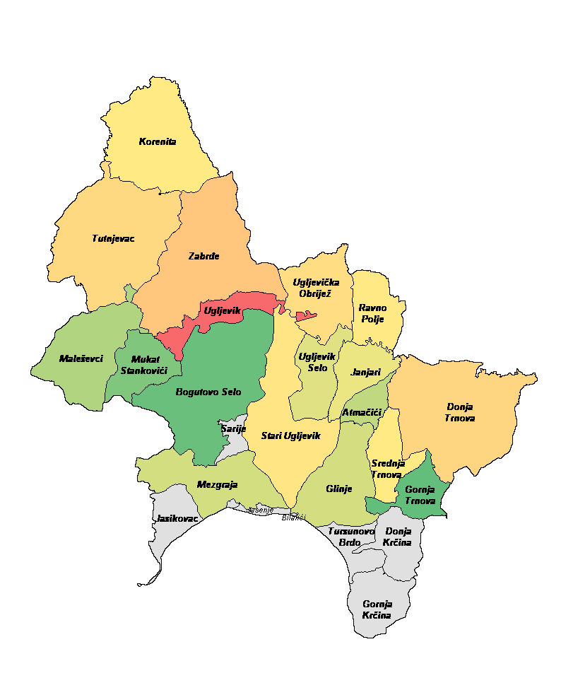 Ugljevik